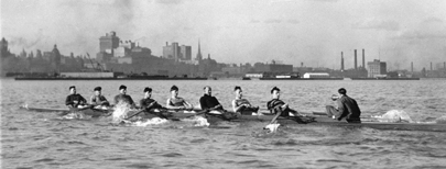 Varsity eight-man Olympic rowing crew in Toronto Harbour